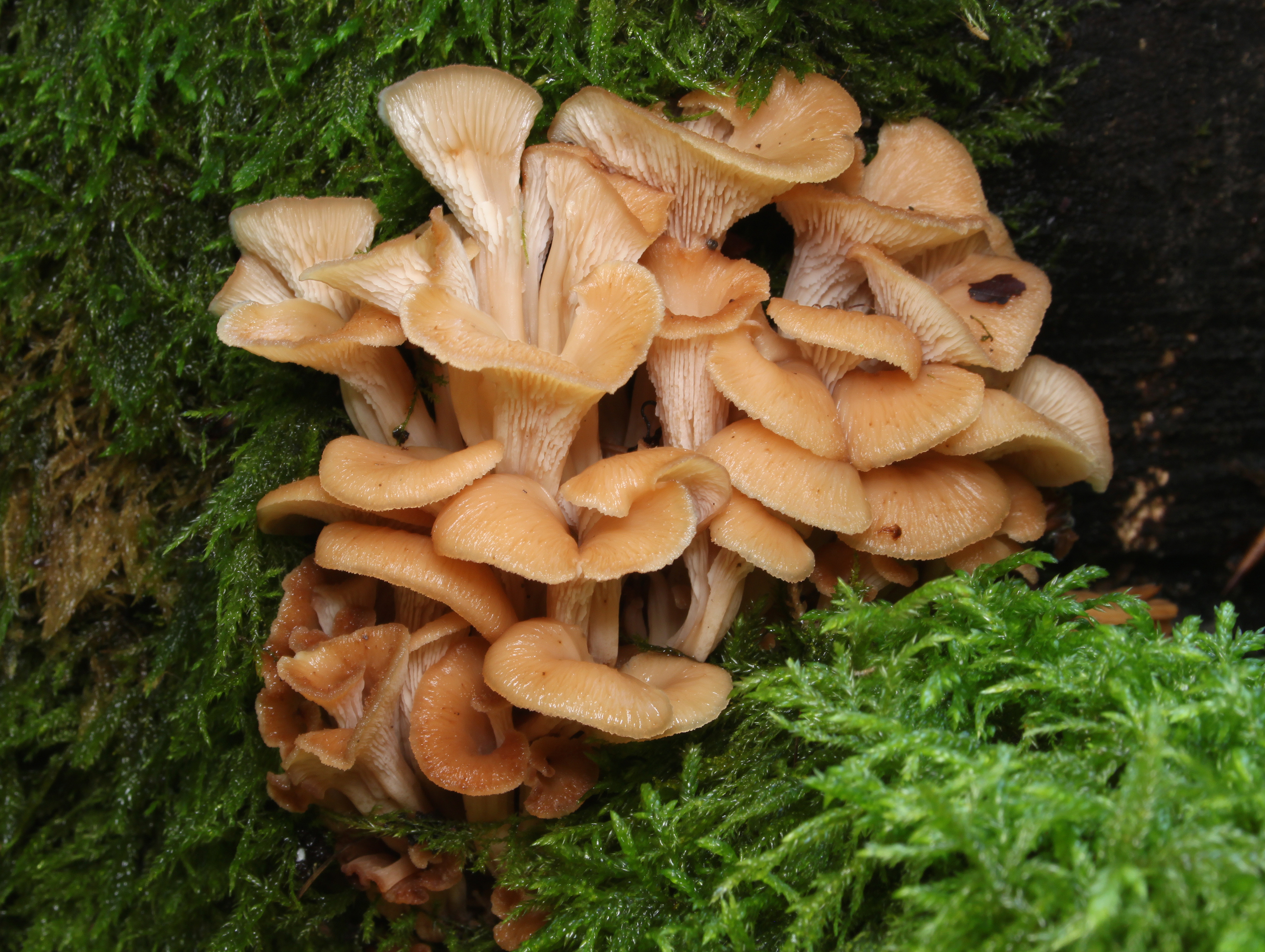 Aniseed Cockleshell, Lentinellus cochleatus var. inolens, Family: Auriscalpiaceae, Location: Germany, Erbach, Ringingen